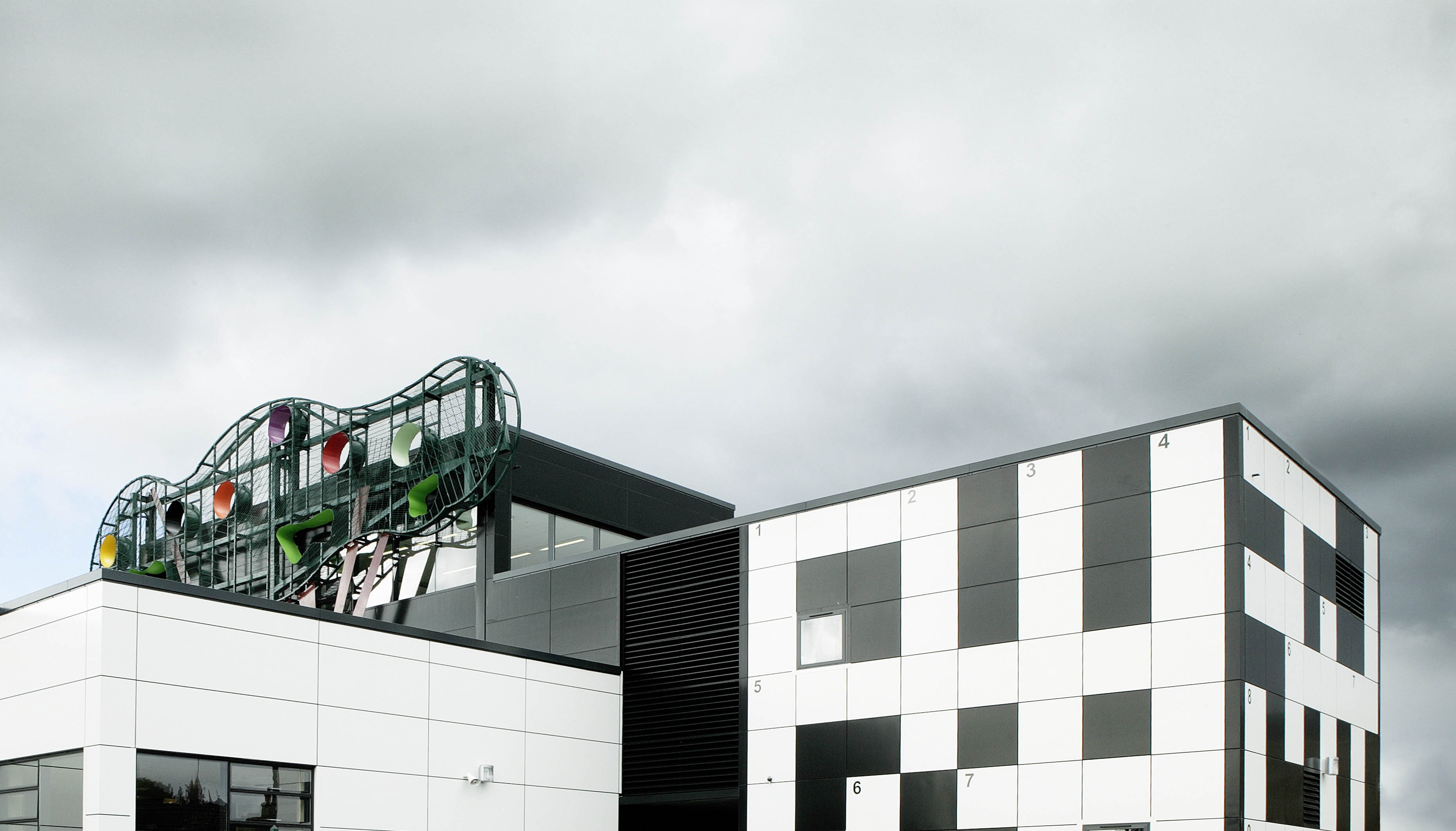 Dalry